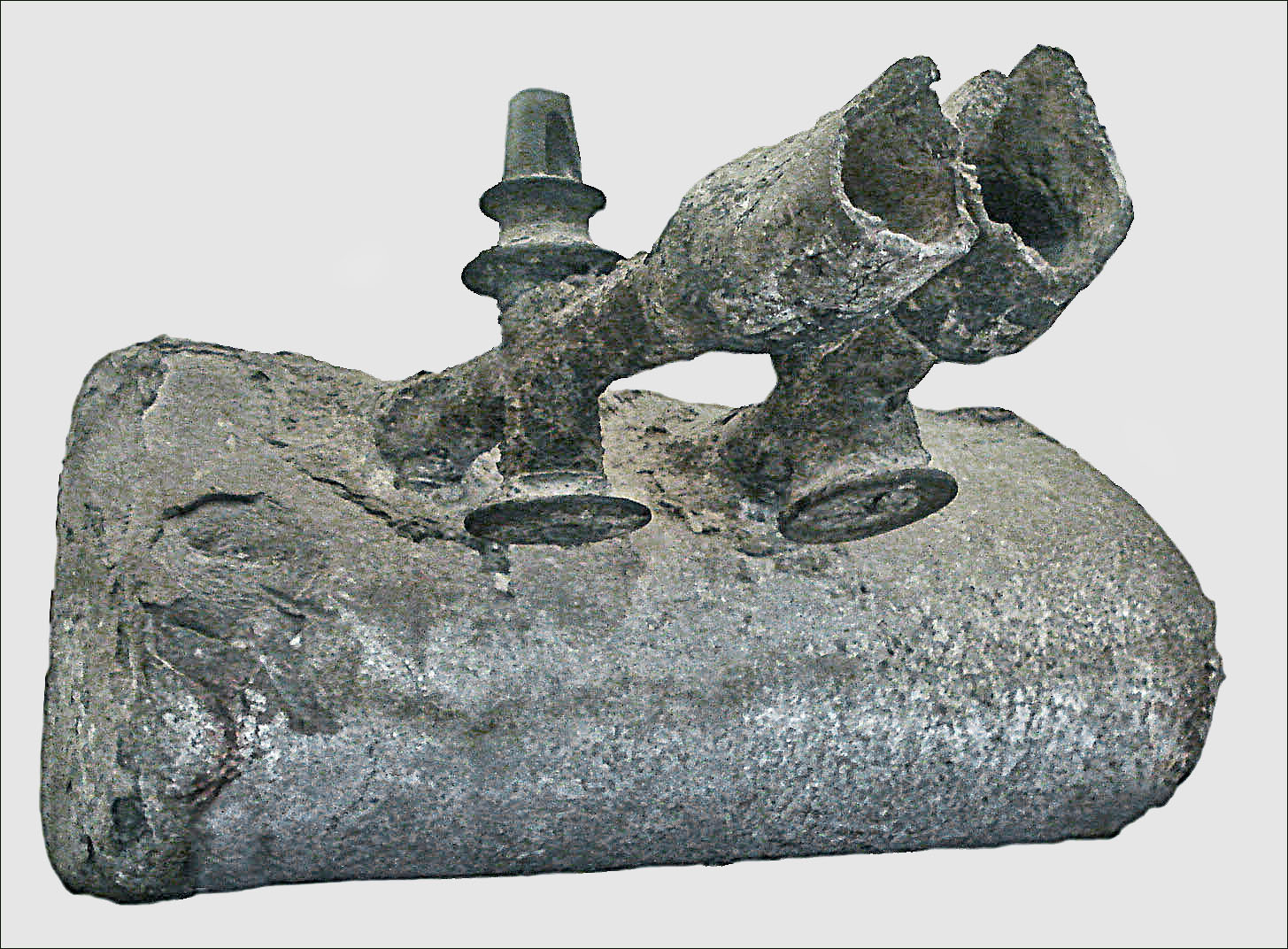 Segment of lead pipe with connections for stop valves. Roman times.